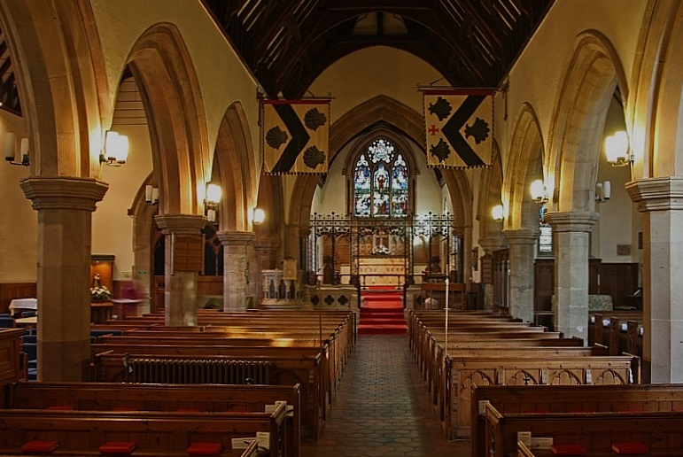 Interior of St John the Baptist, Hagley, Worcestershire with two banners of Knights of the Order of the Garter (belonging to the 1st Viscount Chandos and the 10th Viscount Cobham)